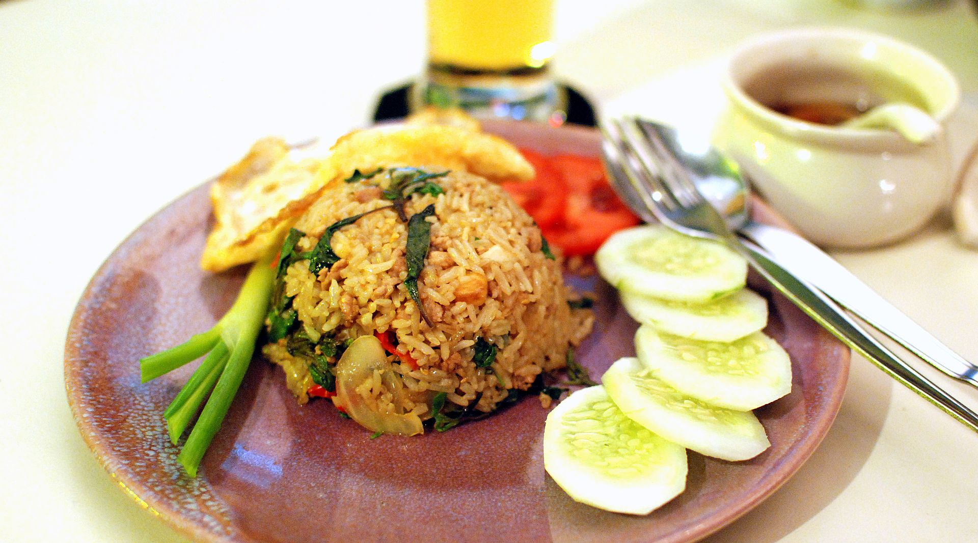 Khao phat kraphao mu (Thai script: ข้าวผัดกระเพราหมู) is rice fried with a certain variety of Thai basil called bai kraphao (Ocimum tenuiflorum), sliced pork and chillies. Here it is served with a fried egg, slices of cucumber and tomato, and a stalk of spring onion.